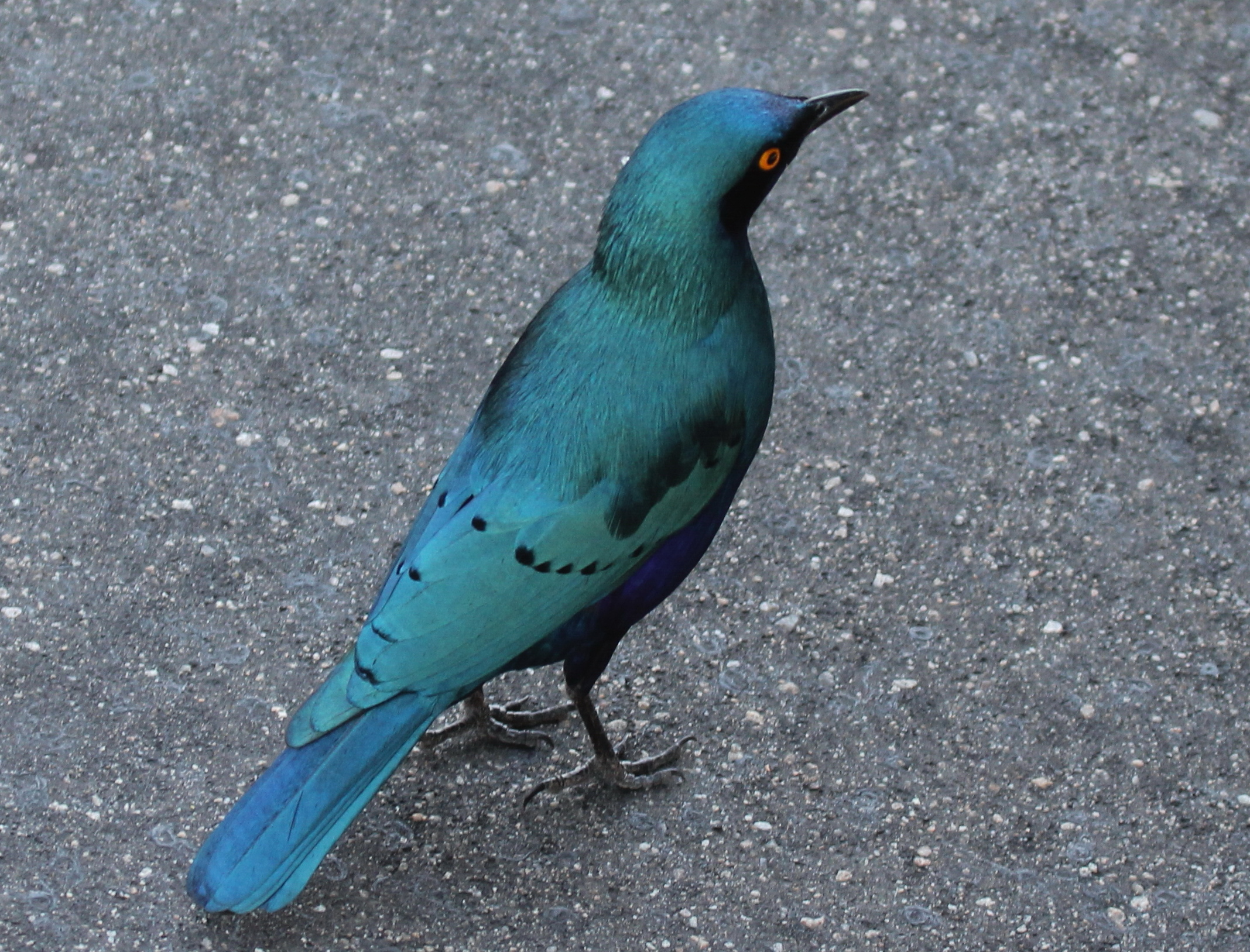 Greater Blue-eared Glossy-Starling (Lamprotornis chalybaeus) in South Africa